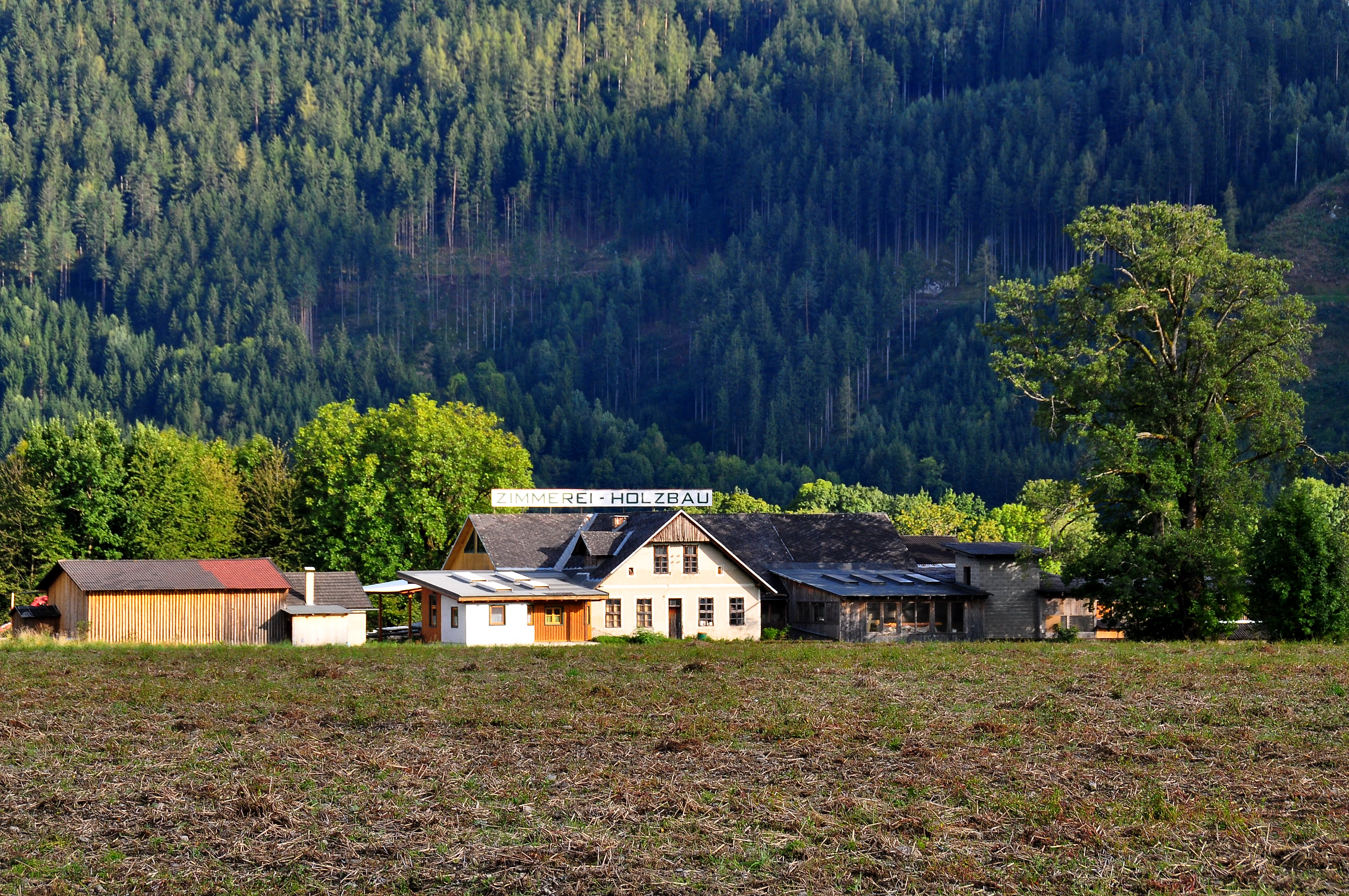 Carpentry establishmen at Feistritz in the municipality of Feldkirchen, district Feldirchen, Carinthia, Austria